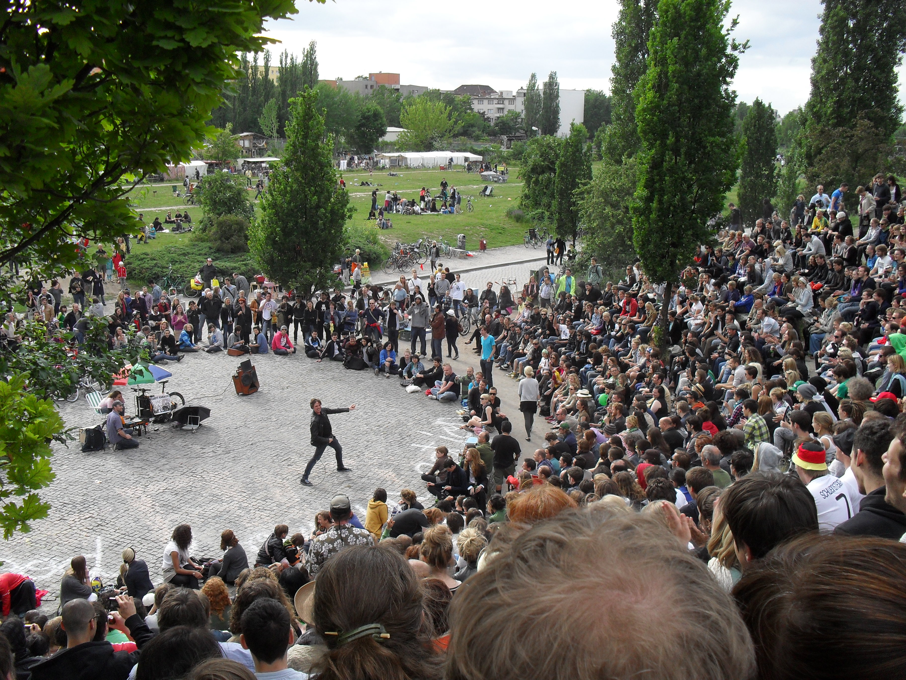 Bearpit Karaoke, Berlin